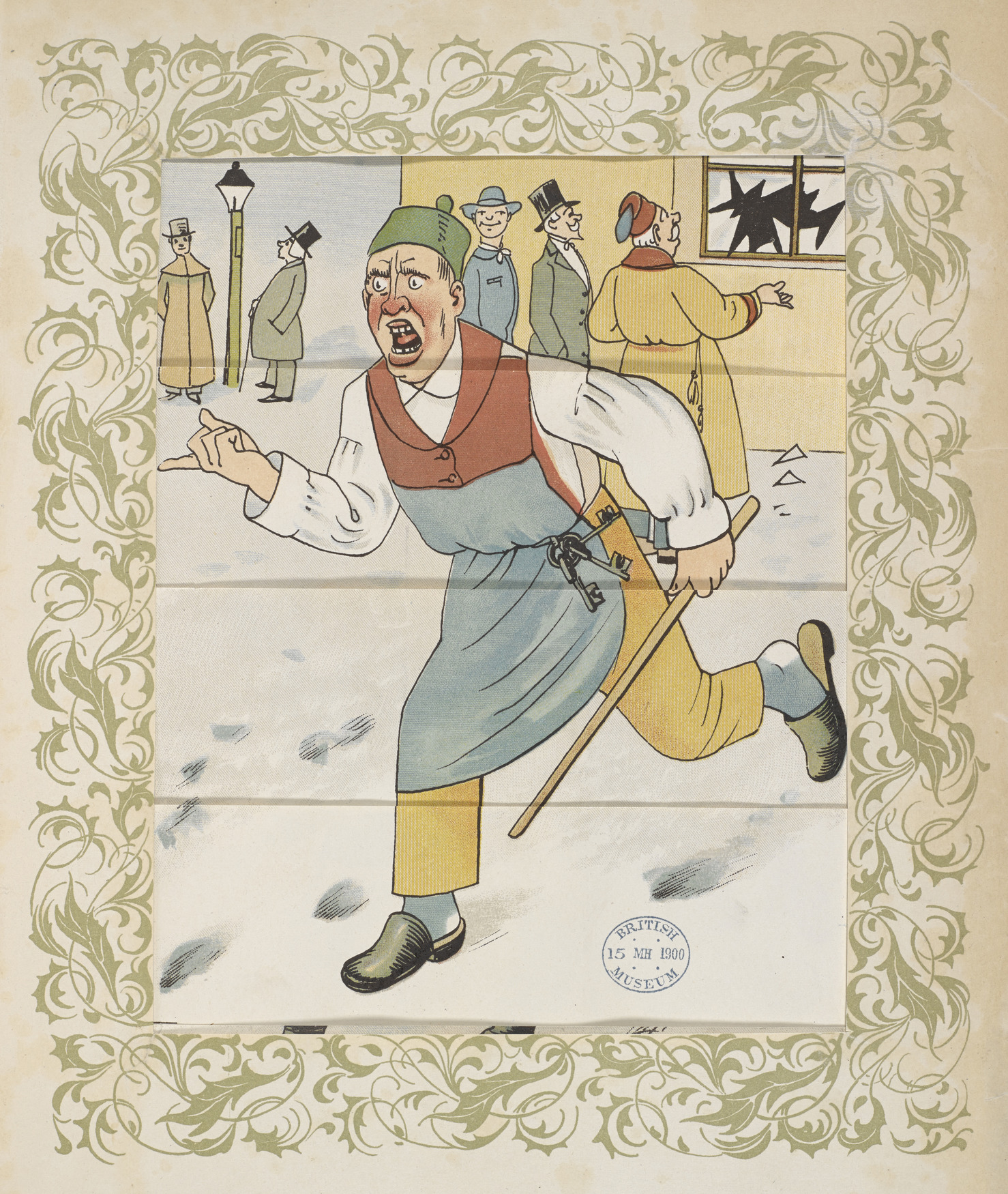 An owner of a shop, angry because his window has been broken.